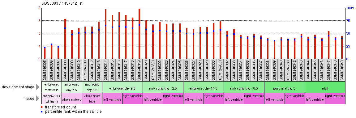 Expression of Skida1 in Mus musculus hearts by age. It tracks expression from embryonic stem cells to adult age.